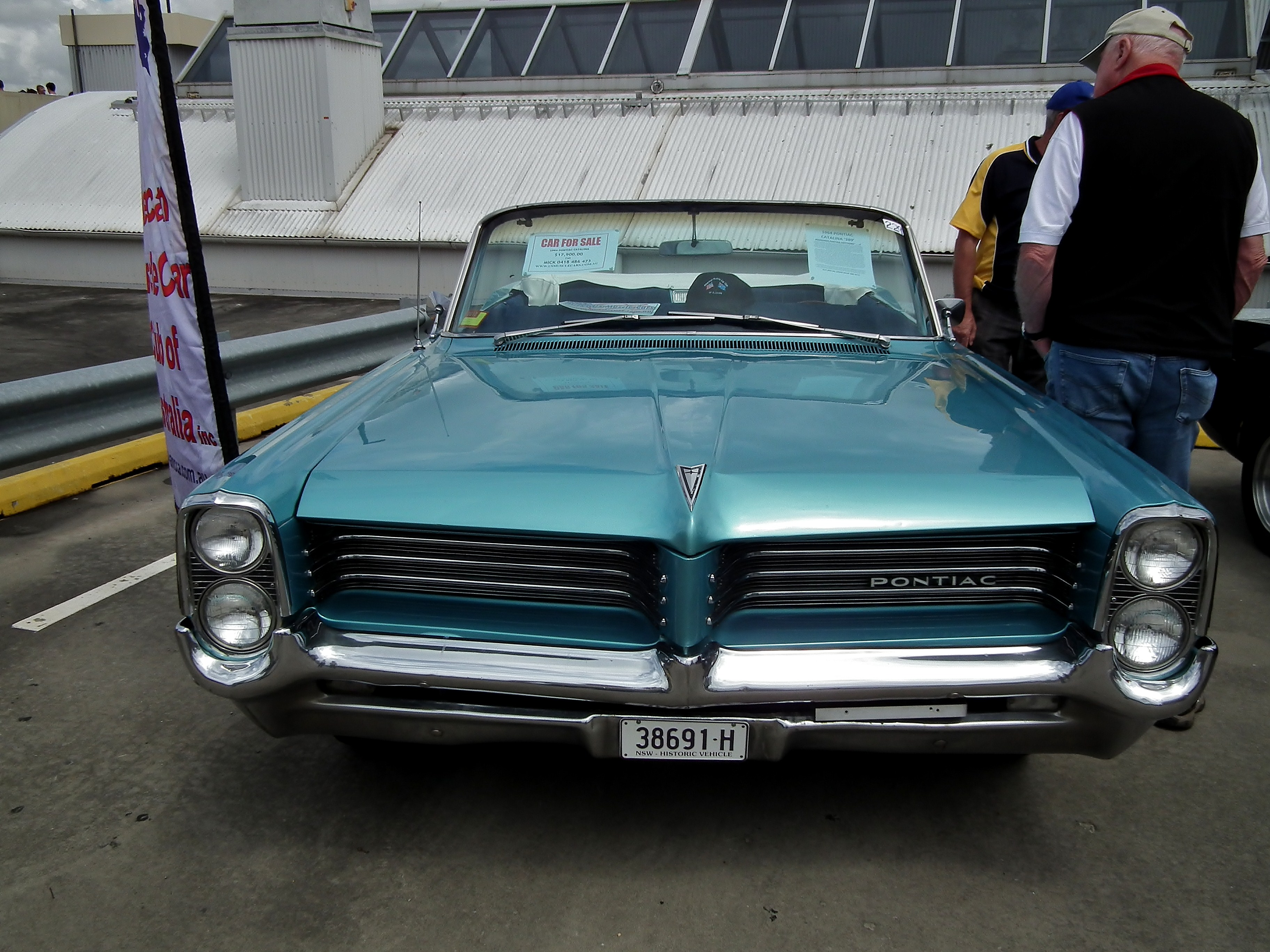 1964 Pontiac Catalina 389 convertible. Taken at the 2012 New South Wales All American Day, held at Castle Towers Shopping Centre, Castle Hill, Sydney.